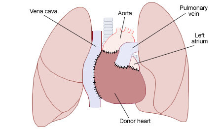 Please consider this image for deletion. I have uploaded an updated version of the image at Heart transplant.jpg which has taken the place of this image in the heart transplantation article, meaning this one is no longer needed. D Dinneen Summary Self-produced image using fireworks MX (Based on image seen in textbook), for use on Heart transplantation article.D Dinneen 14:56, 12 November 2006 (UTC)